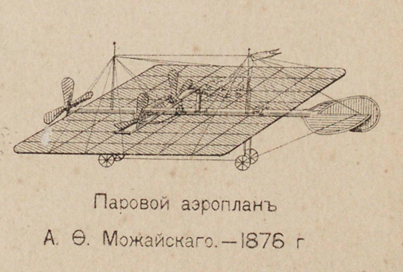 Artist's view of Mozhaysky's steam-powered aeroplane, published in 1884 in the book of collected lectures dedicated to the centennial of aeronautics (since the first flight of Montgolfier brothers). Considered by Russian scholars to be an important historical source on the aircraft's exact design and appearance.